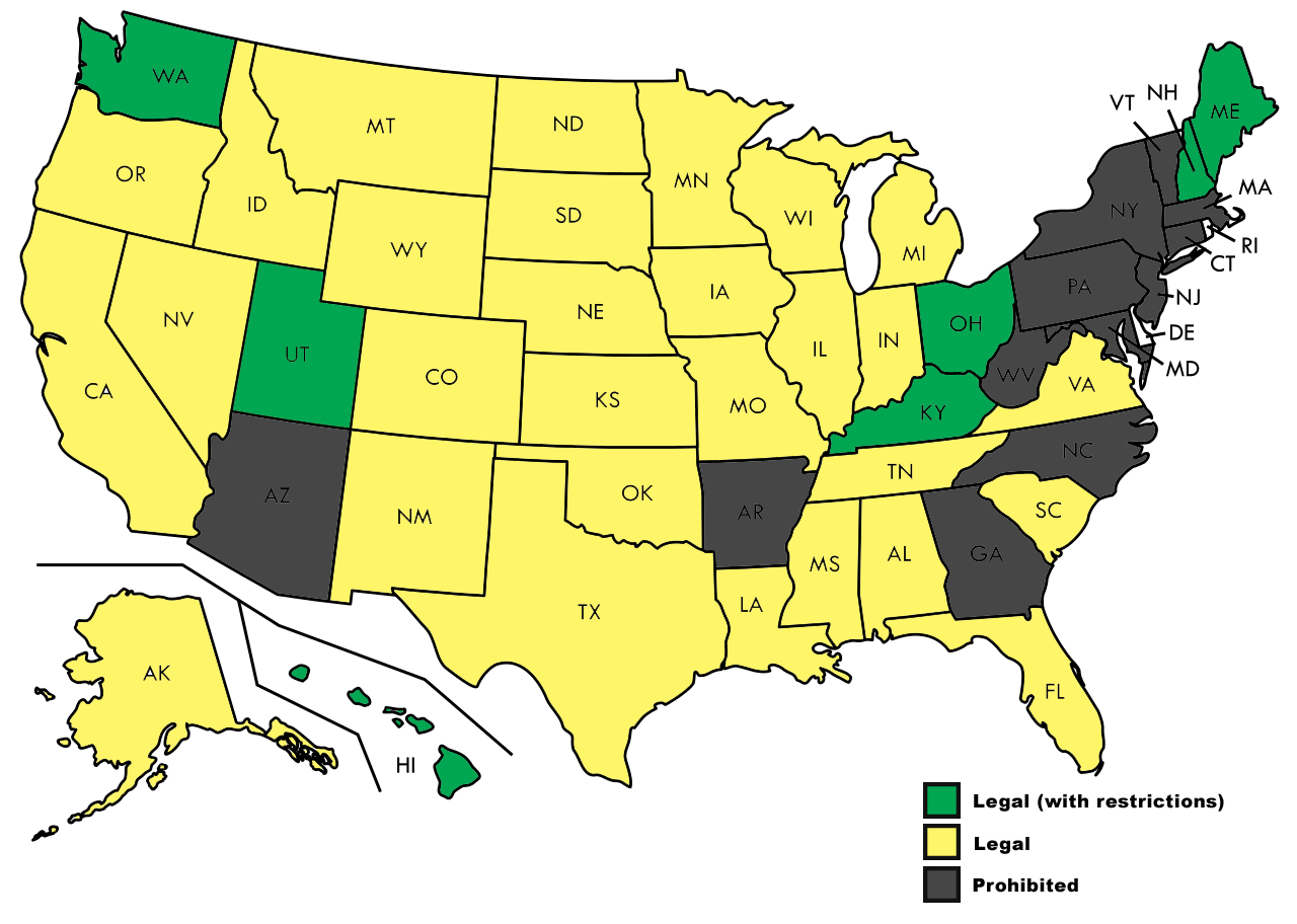 Legality of Payday Loans in the United States by State